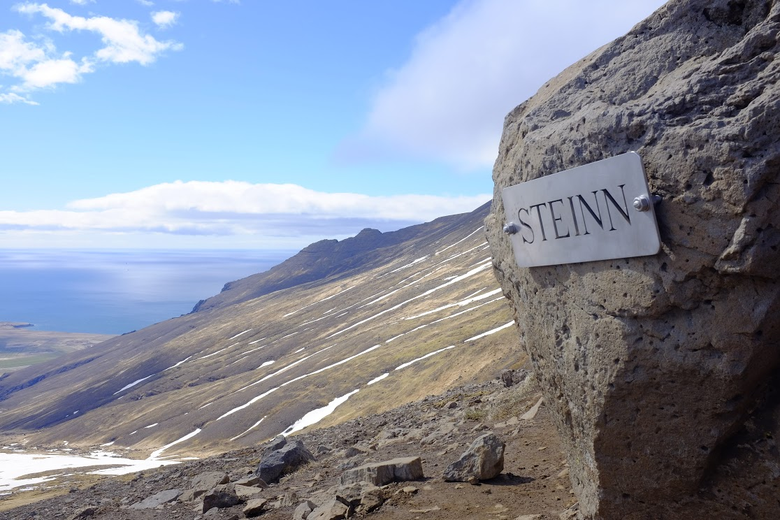 Just outside of Reykjavik, hiking the most widely used trail up Mt. Esja will lead you to Steinn. Here you can get a panoramic view of Reykjavik and sign a guestbook.